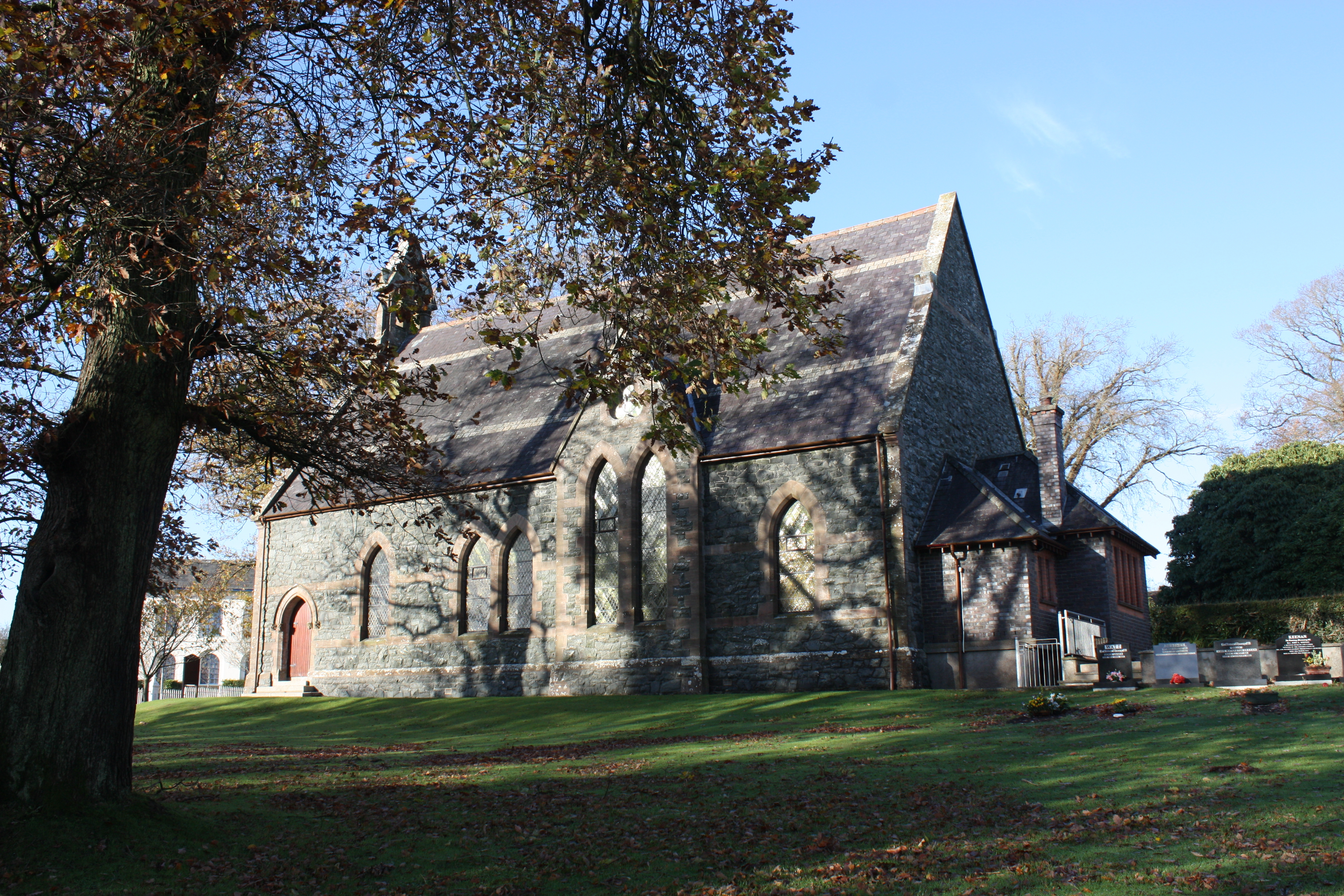 Spa Presbyterian Church, Spa Road, Spa, County Down, Northern Ireland, November 2010